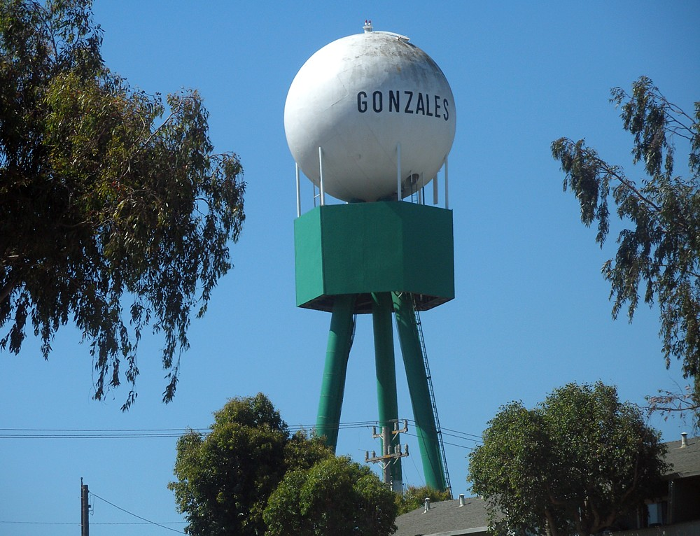 The water tower serving the city of Gonzales.